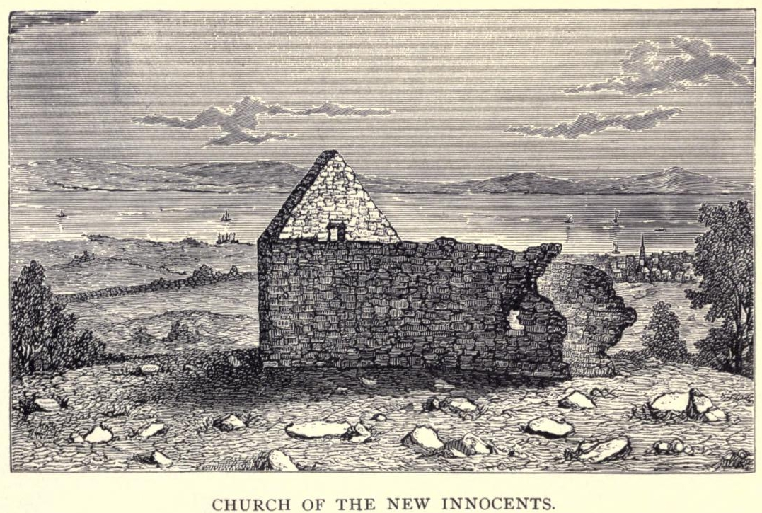 Supposed "Church of the New Innocents" near Carloforte, Isola di San Pietro